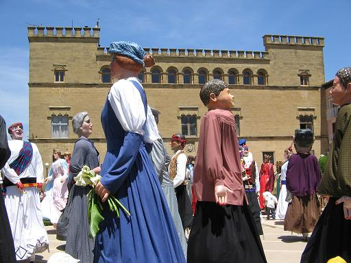 The 6th meeting of the Giants of Aragon, Spain. Gigantes y cabezudos